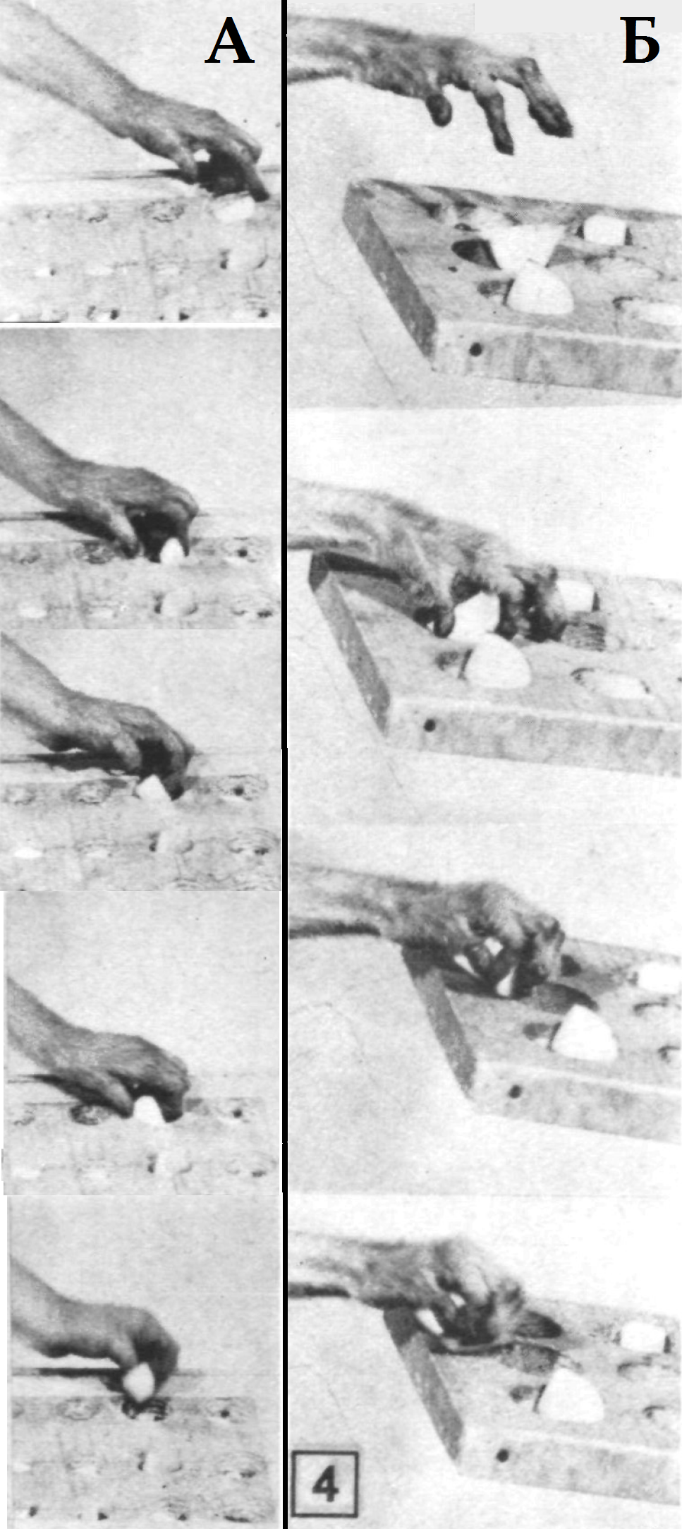 A lesion of the pyramidal tract abolishes fine grasping movements. A. A monkey is normally able to make individuated movements of the wrist, fingers, and thumb in order to pick up food in a small well. B. After bilateral sectioning of the pyramidal tract the monkey can remove the food only by grabbing it clumsily with the whole hand. This change results mainly from the loss of direct inputs from cortico-motoneurons onto spinal motor neurons. A pyramidal tract transection is not equivalent to a motor cortex lesion, however, because not all pyramidal tract axons terminate in the spinal cord. The axons that do project to the spinal cord originate in several cortical areas, including the motor cortex, and the corticospinal tract is only one of several parallel output pathways of the motor cortex.